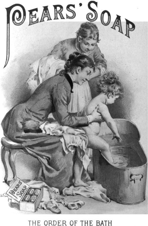 Ad for Pear' Soap